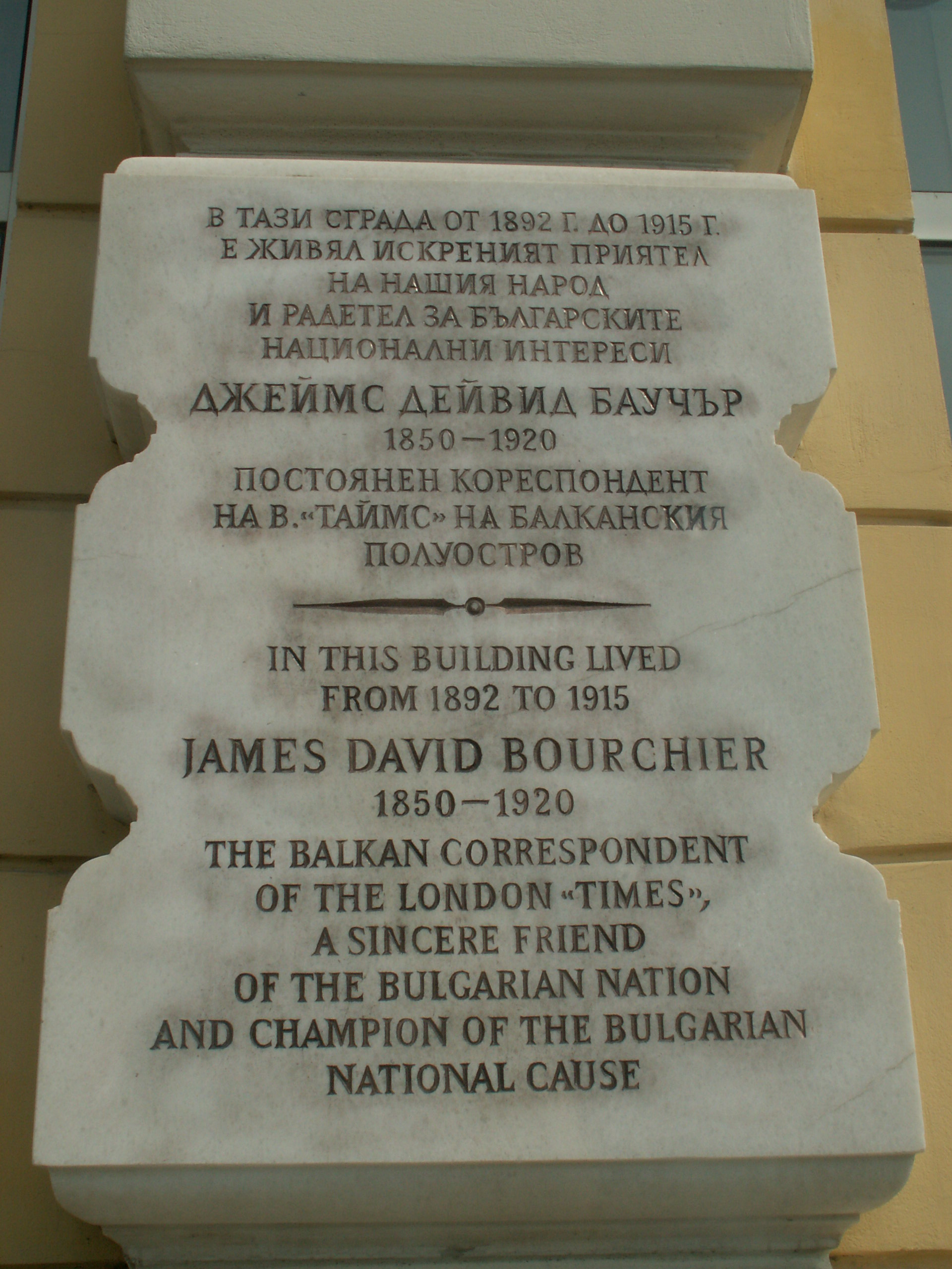 Plaque in honour of James David Bourchier on the former Grand Hôtel de Bulgarie, Sofia